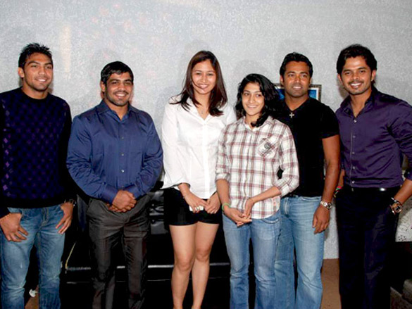 Sushil Kumar, Jwala Gutta, Ashwini Ponnappa, Leander Paes and Sreesanth on the sets of KBC